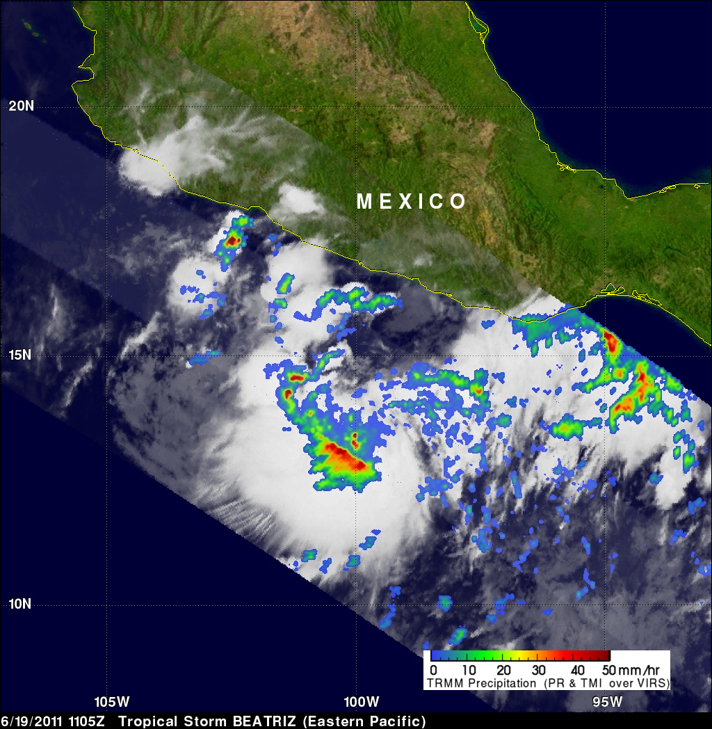 Tropical depression 02E was upgraded to tropical storm Beatriz on 19 June 2011 at 1800 UTC (1100 AM PDT). The TRMM satellite flew over on the same date at 1105 UTC( 0400 AM PDT) obtaining data used in the image shown above. Beatriz was already well organized with TRMM's Microwave Imager (TMI) and Precipitation Radar (PR) data showing that thunderstorms were dropping heavy rainfall in a large area near the center of the forming storm. PR data revealed that some of these powerful storms were reaching heights above 15 km (9.3 miles).